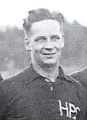 Finnish internation footballer William Kanerva. Cropped from File:HPS_champions_1927.png